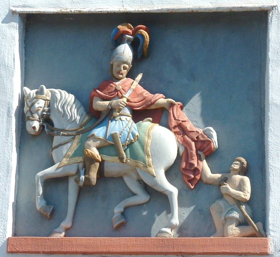 Relief of Martin of Tours at the building of the old abbey of Martinskloster, Trier, Germany.